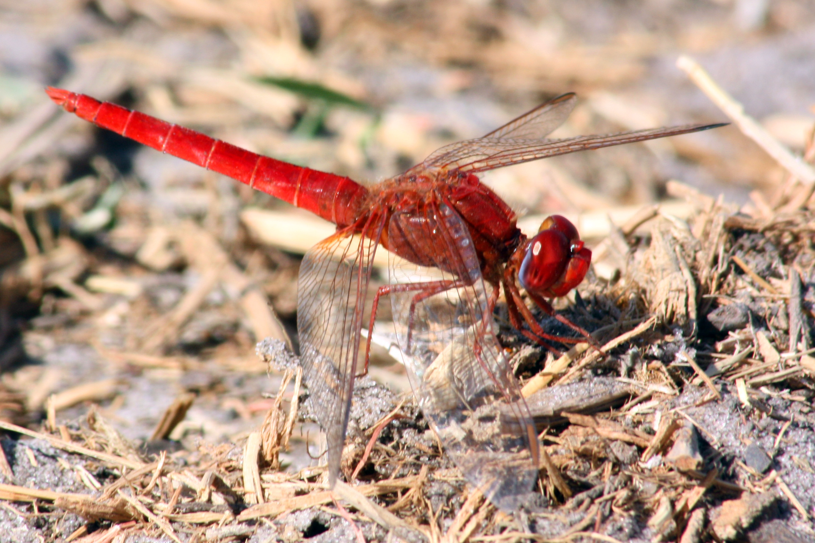 Kirby's dropwing gragonfly (trithemis kirbyi) in Okavango Delta, Botswana